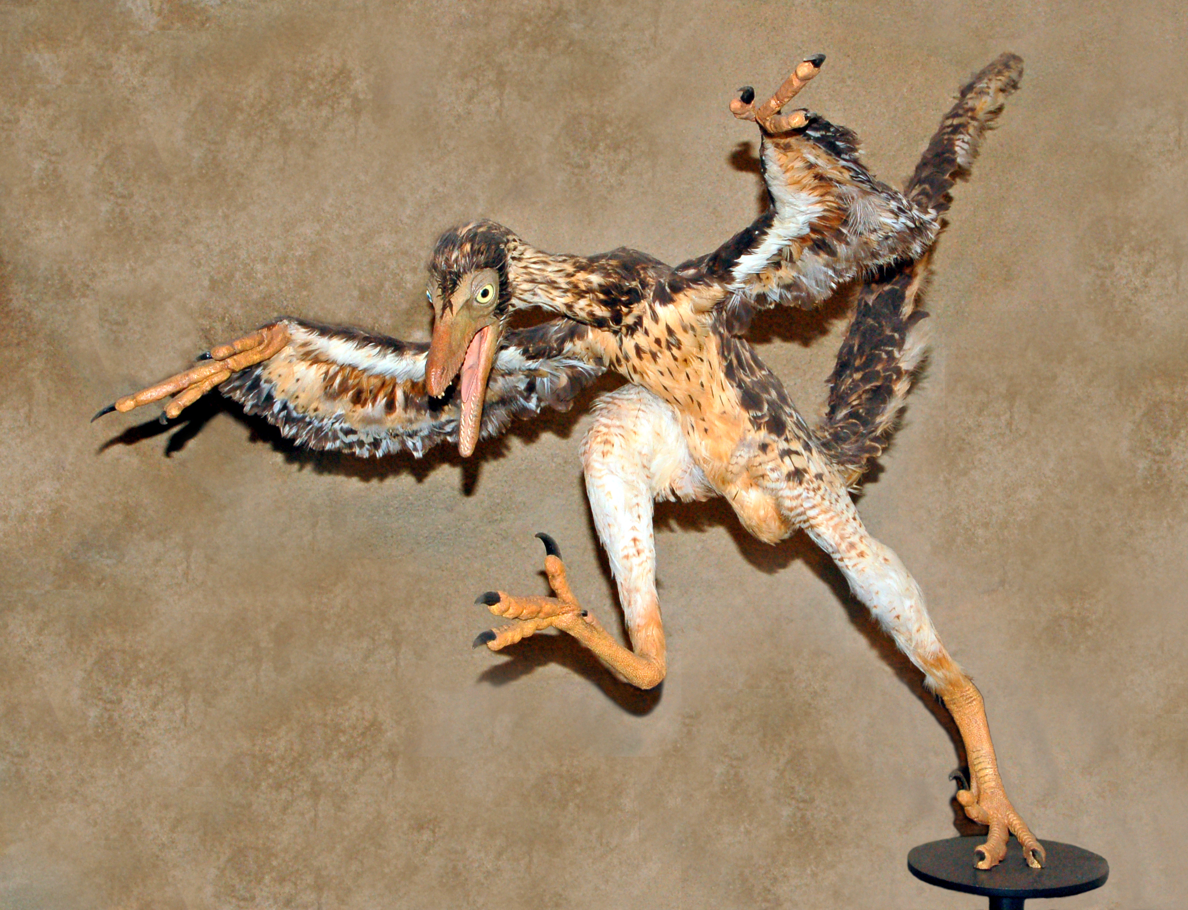 Sinornithosaurus millenii, reconstruction at Canadian Museum of Nature, Ottawa, Canada